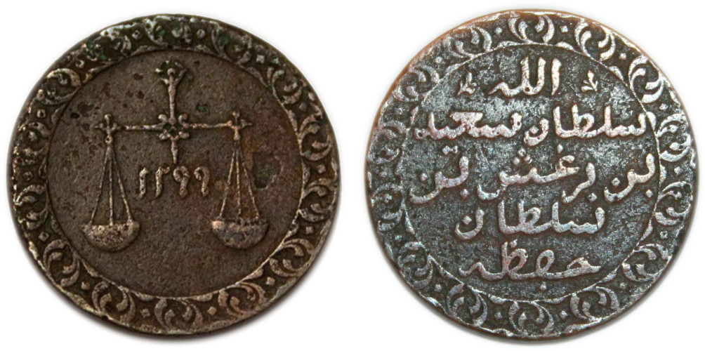 One Pysar Coin from Zanzibar circa 1882 AD (1299 AH)